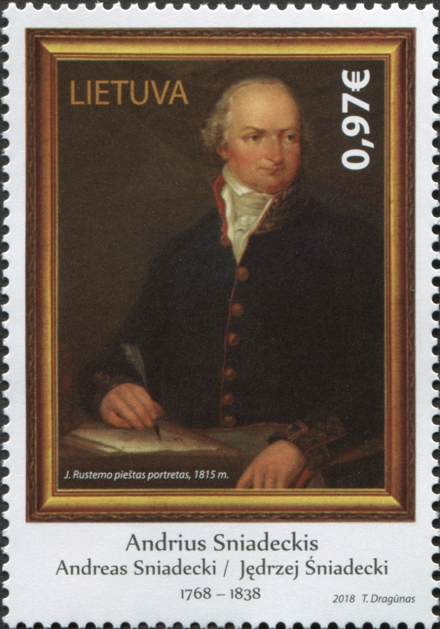 250th Anniversary of the Birth of Andrius Sniadeckis